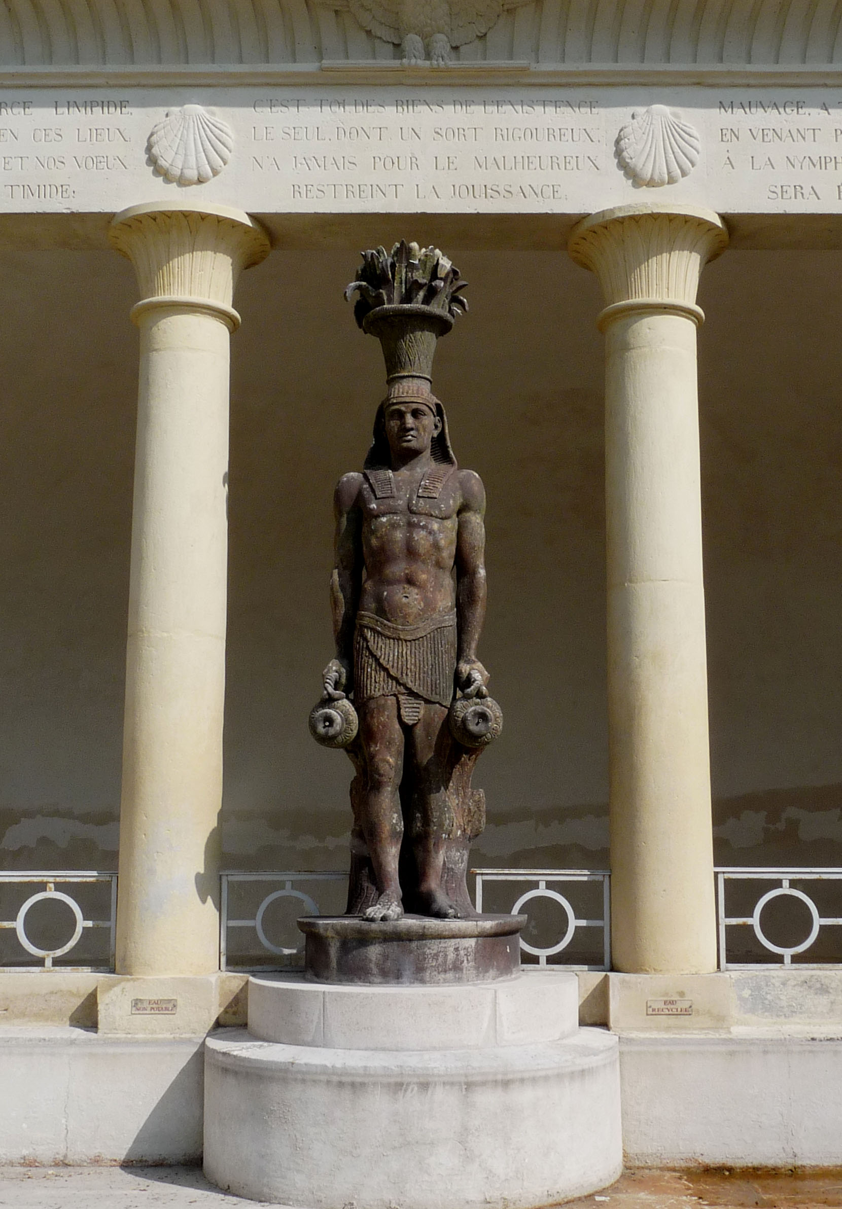 Wash house in Mauvages (Meuse)